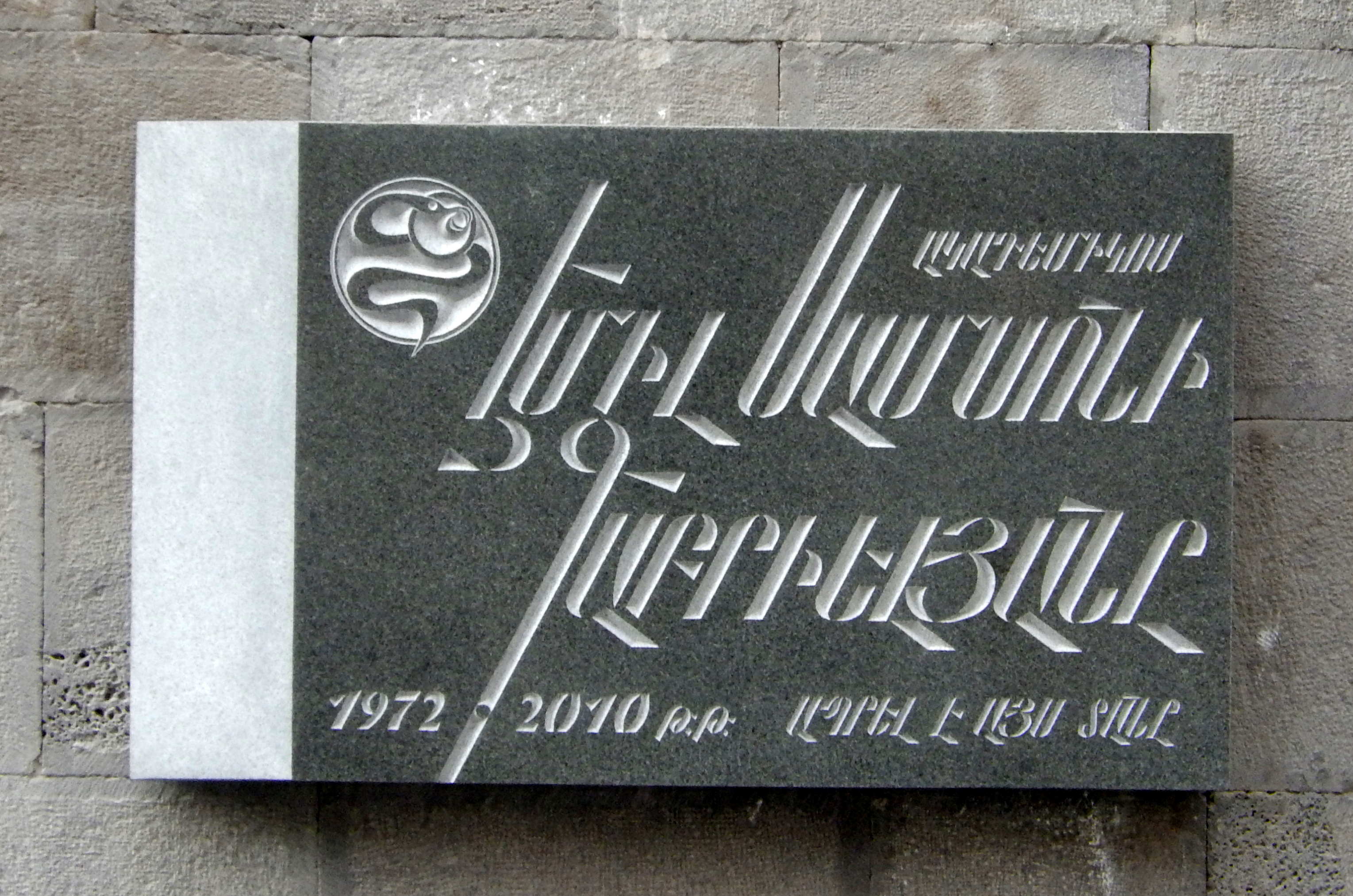 Էմիլ Գաբրիելյանի հուշատախտակ